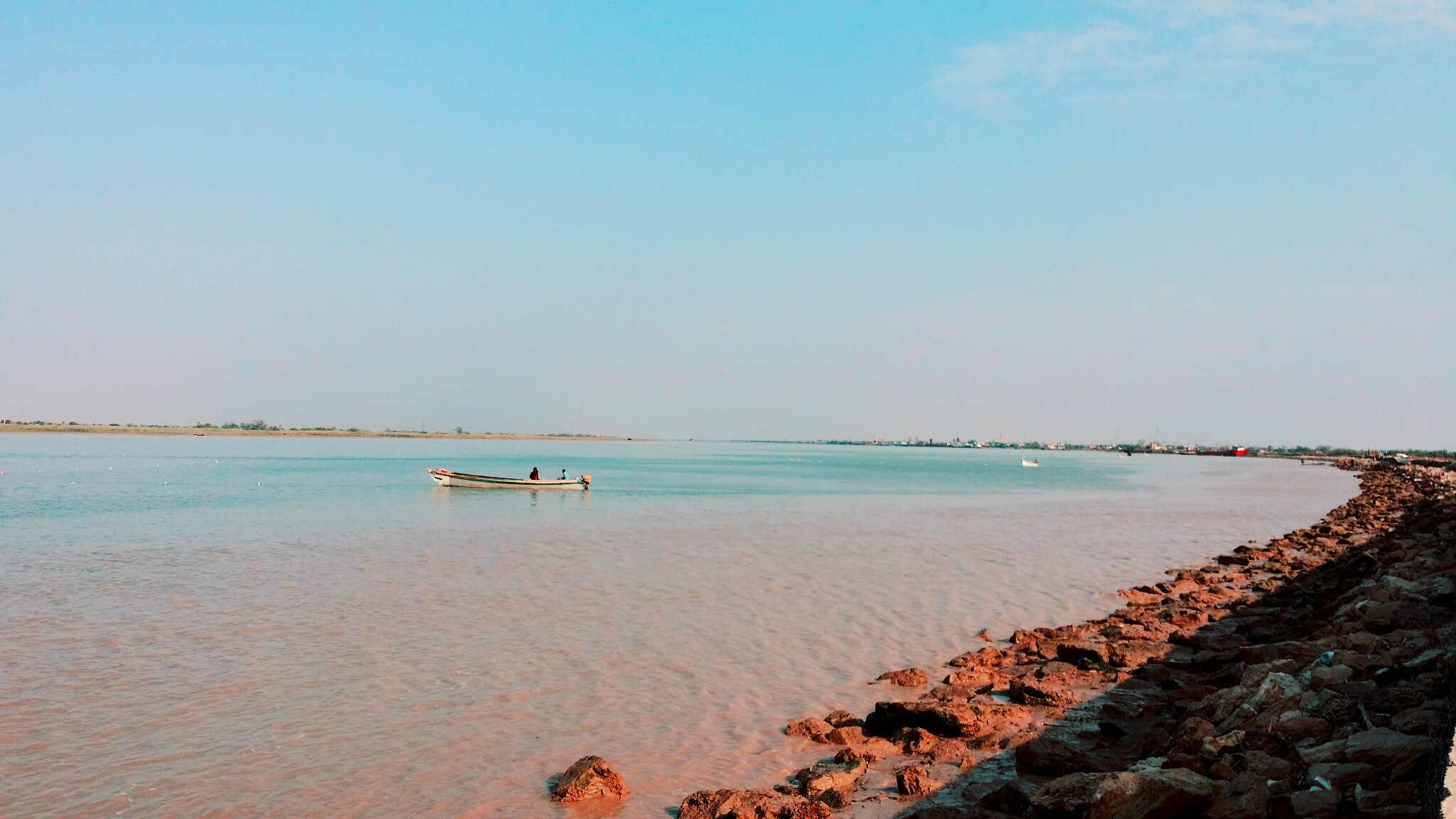 Al-Faw on the region of the Shatt Al-Arab and Arabian Gulf, Iraq